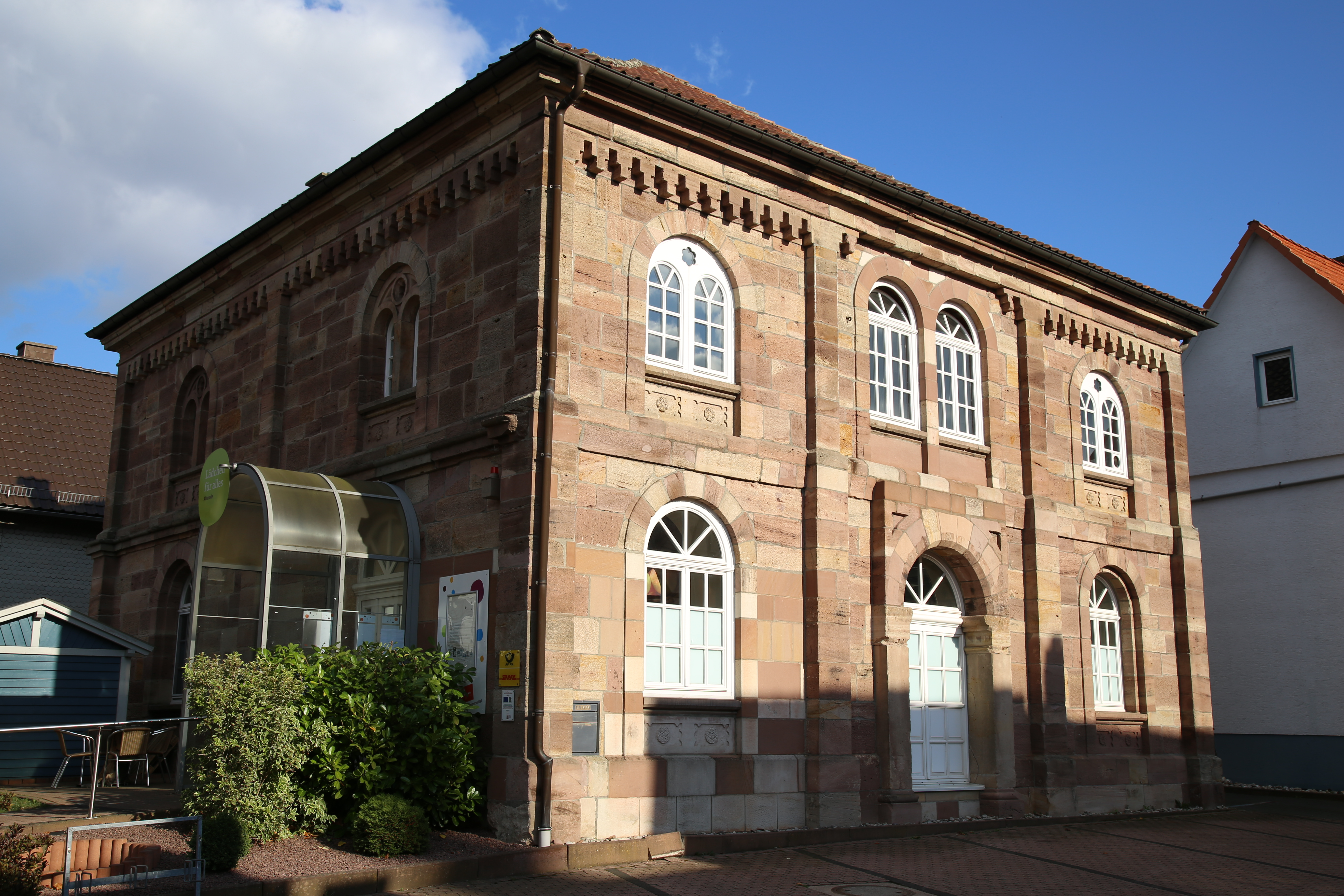 Synagogue Abterode